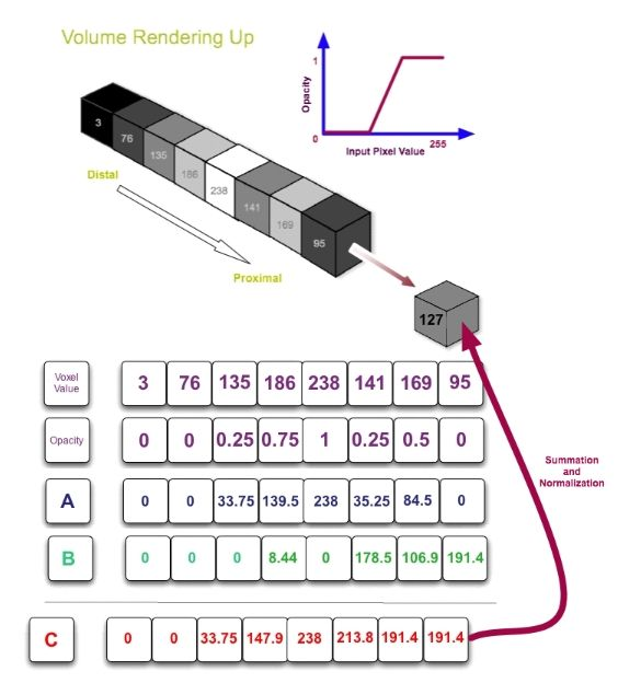 Illustration of vvolume rendering. Generated by Kieran Maher using OmniGraffle and Graphic Converter. marz 16:17, 24 October 2006 (UTC)